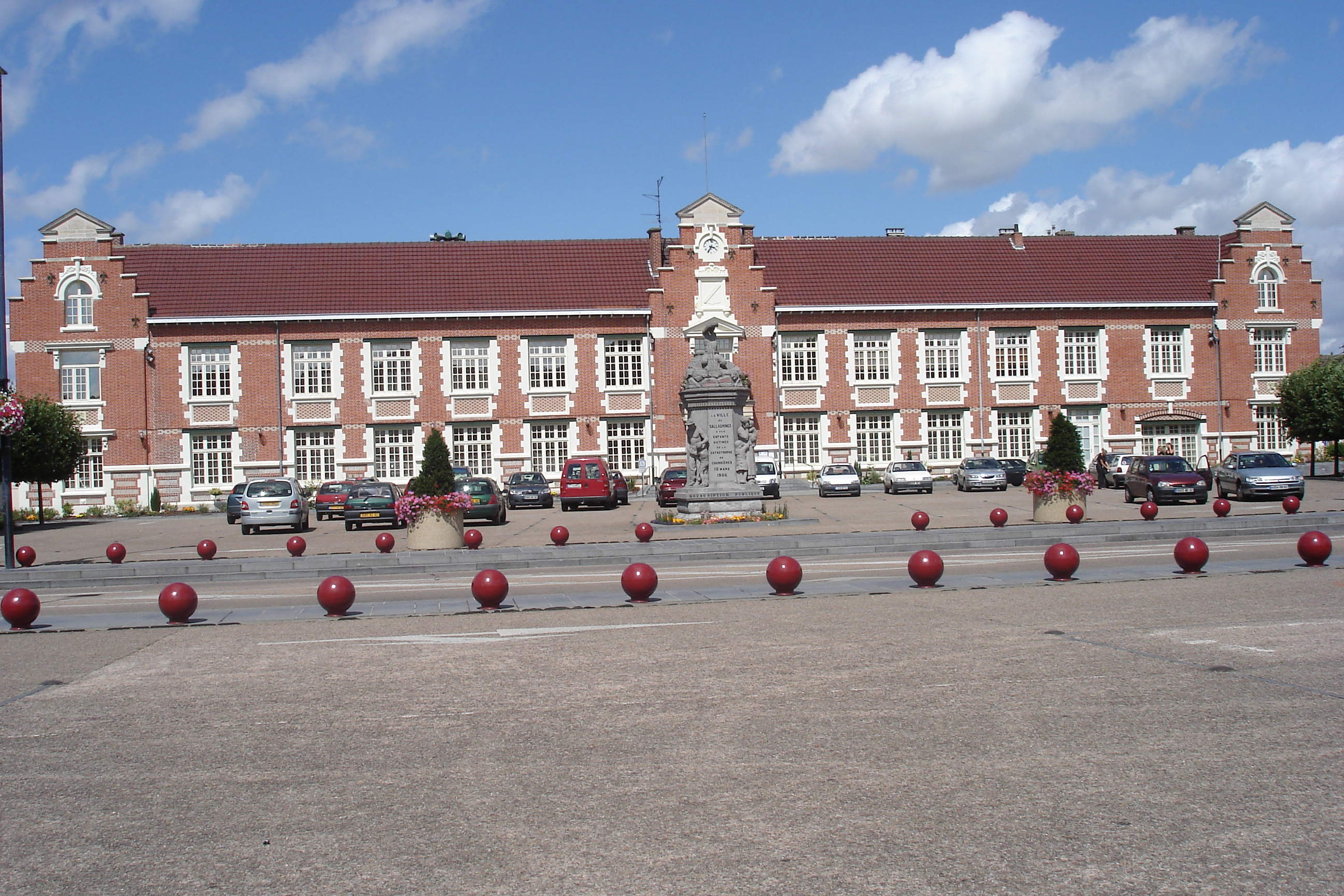 Town hall of Sallaumines (France), photo taken by myself of 1st Aug. 2006.